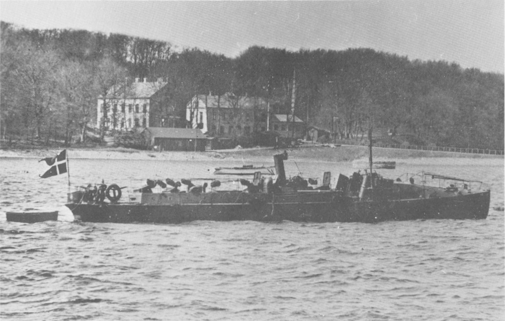 Danish Torpedo Boat 2nd Class No. 13 (Built by Thornycrofy, England 1889